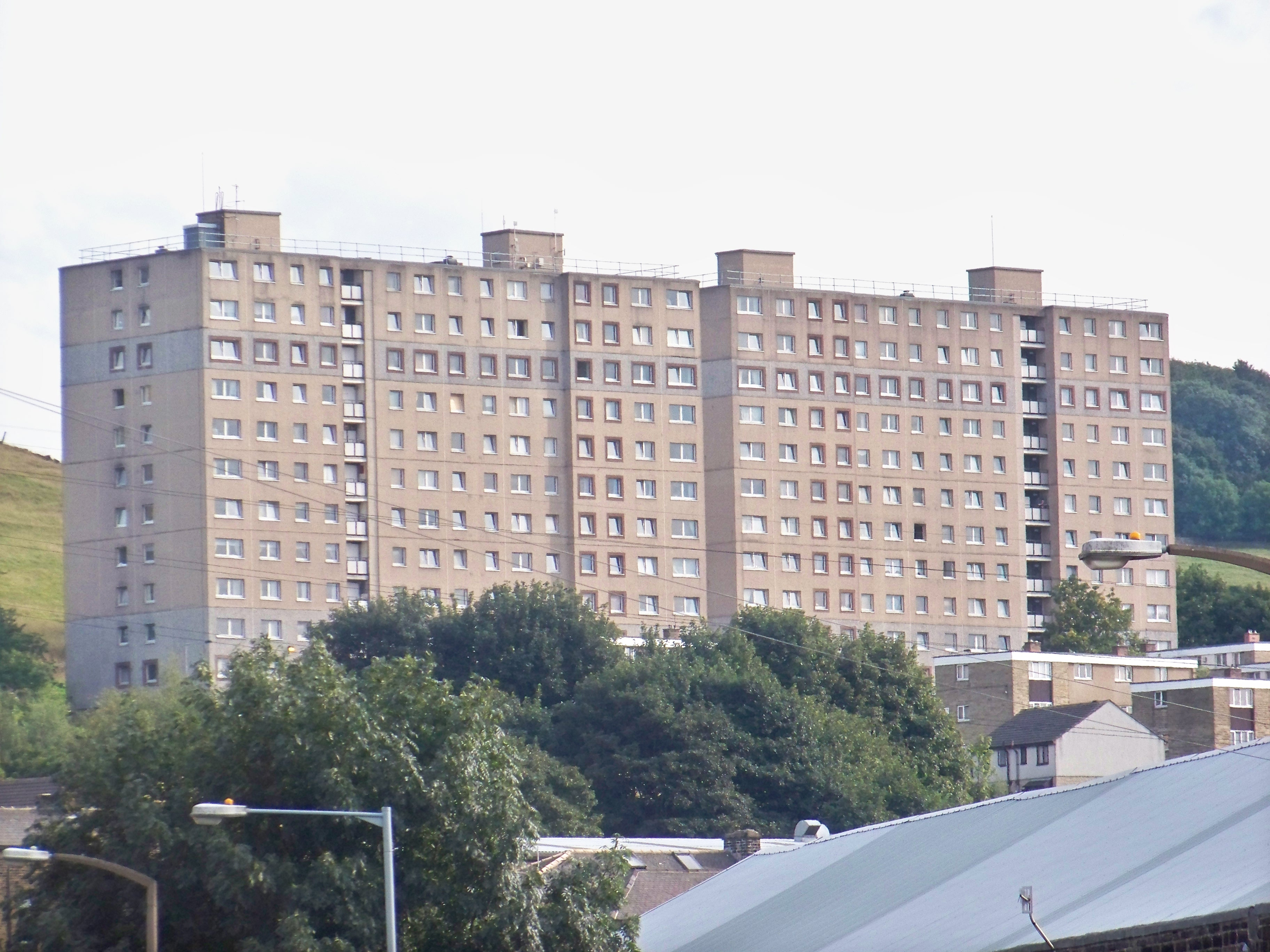 Flats in Keighley, West Yorkshire. Taken in on the aftrenoon of Saturday the 22nd of August 2009.